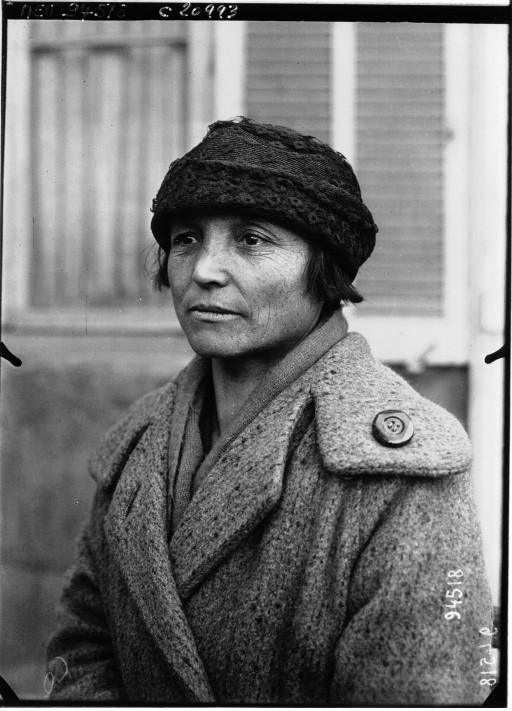 Lucie Colliard, French teacher and communist activist